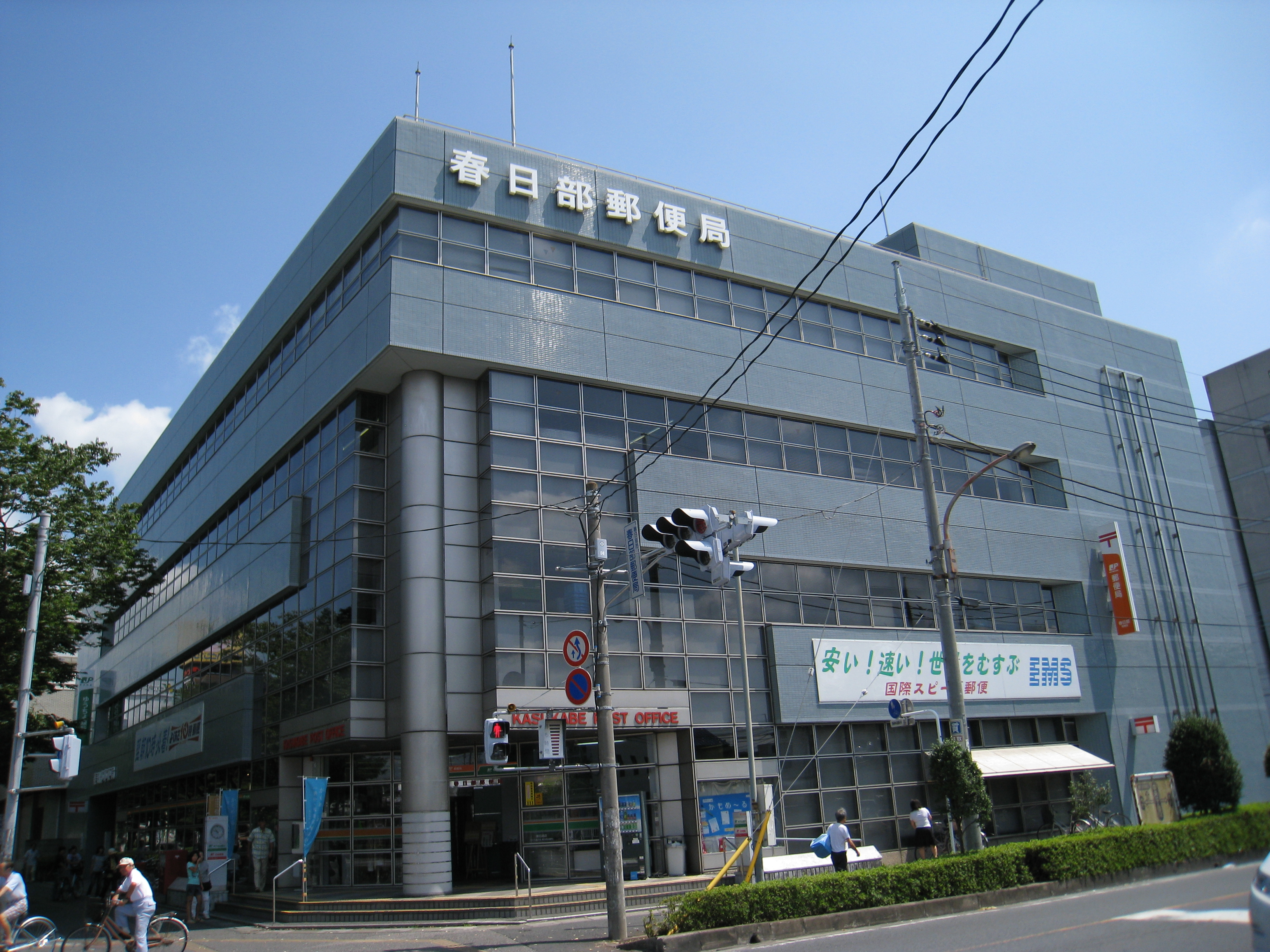 Kasukabe postoffice. Kasukabe-shi, Saitama-ken, Japan